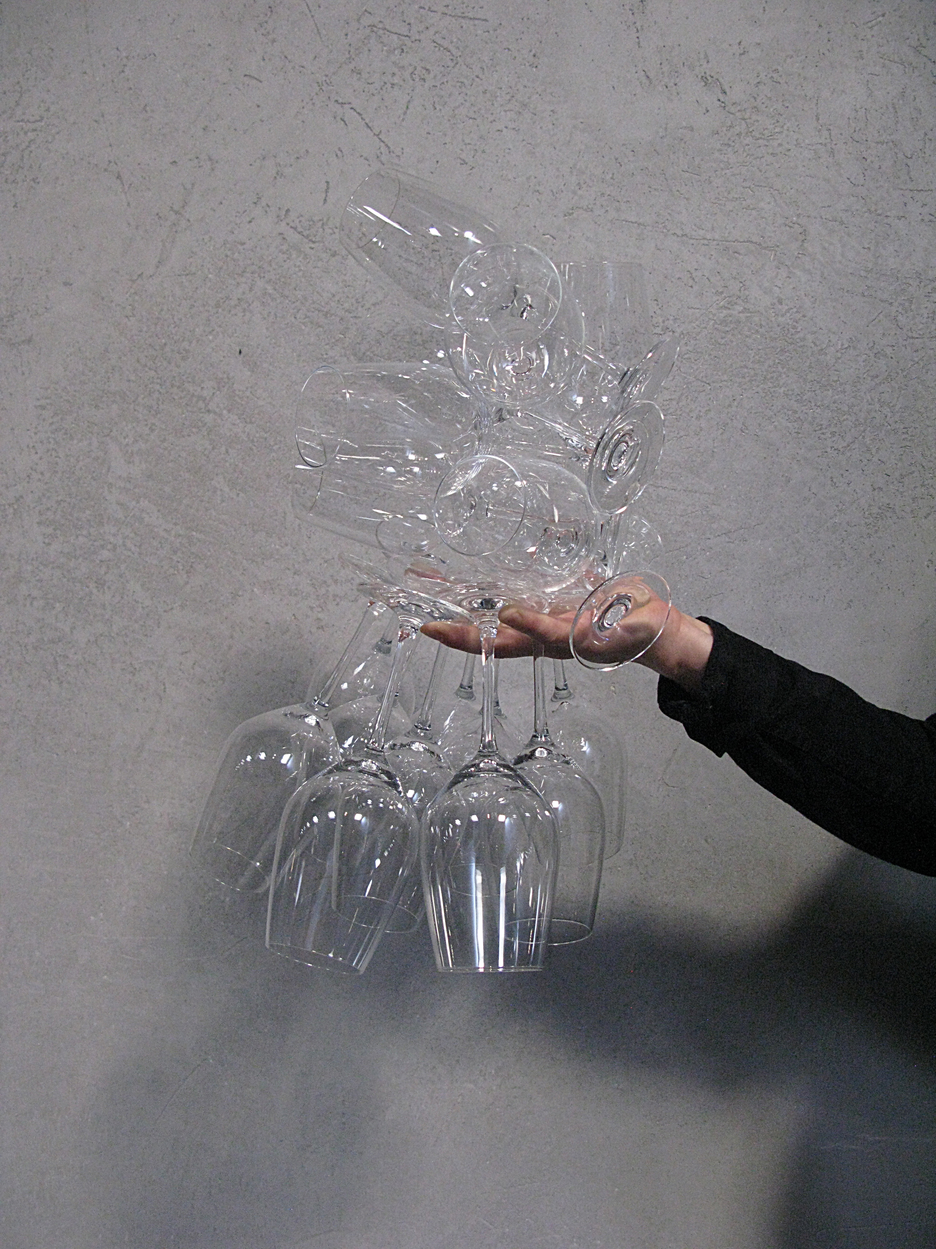 A waiter holding many wine glasses in one hand.